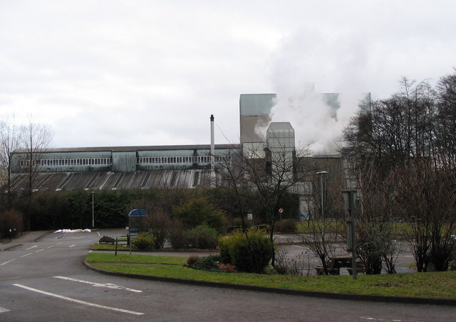 Muir of Ord Maltings. These are the maltings attached to the Ord Distillery.